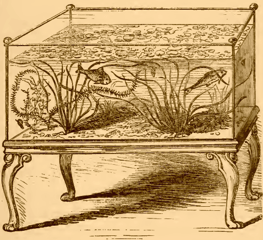 Mid 19th Century glass freshwater aquarium, containing Vallisneria spiralis, goldfish, roach, and minnow.